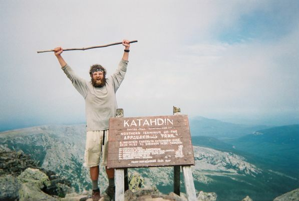 A hiker named "Hoss" finishes a through hike in 2004. Picture taken by Charles Gunti. He completed the Appalachian Trail.